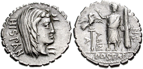 A. Postumius A.f. Sp.n. Albinus. 81 BC. AR Serrate Denarius (20mm, 3.84 g). Veiled head of Hispania right / Togate figure standing left, raising hand; legionary eagle to left; fasces with ax to right. Crawford 372/2; Sydenham 746; Postumia 8. VF, nicely centered, some minor cleaning scratches.